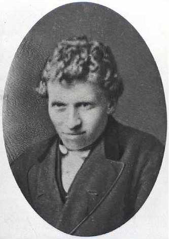 Jakob Kristian Lauridsen (1858-1905), Danish politician, MP